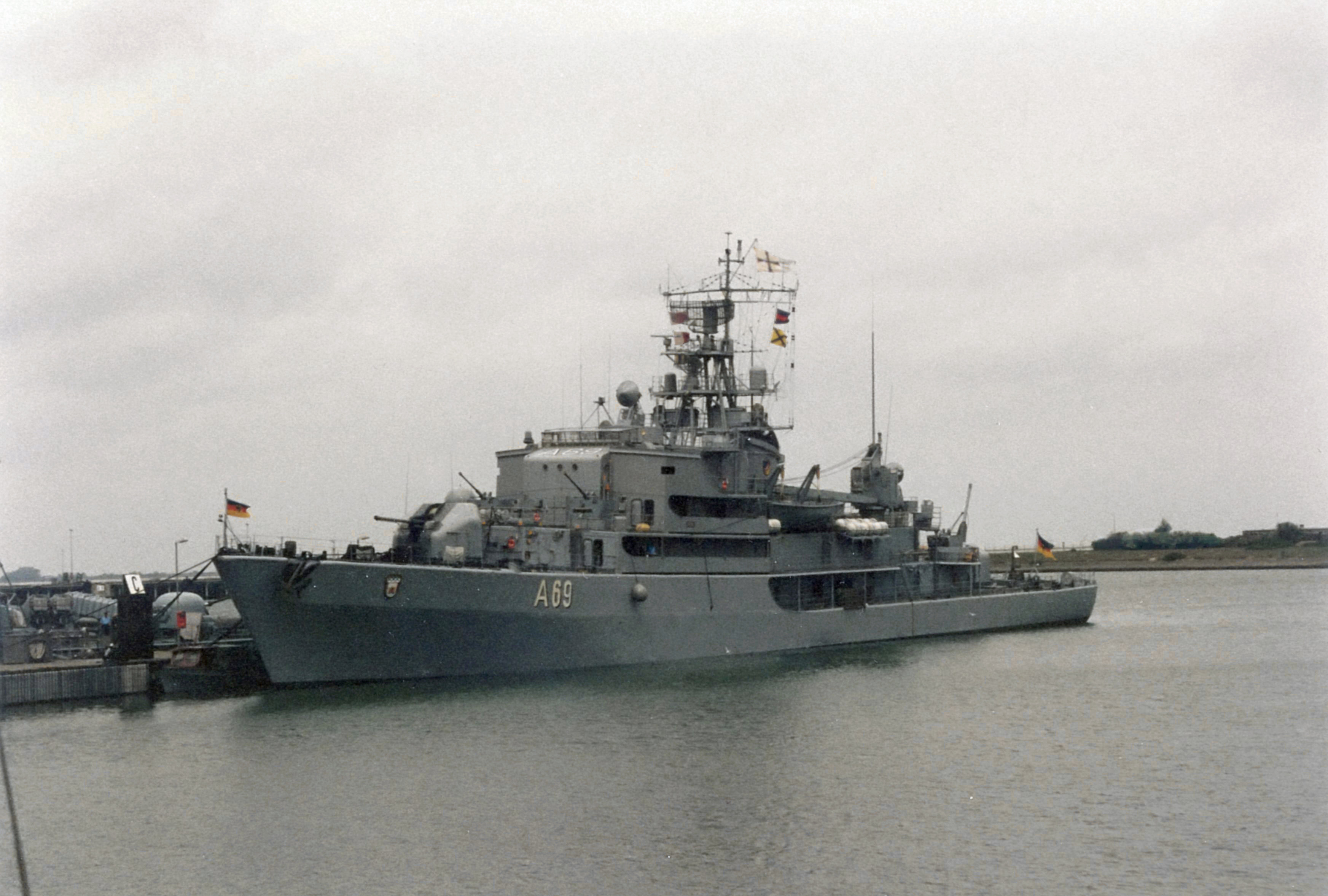 German Tender Donau (A69) in Olpenitz, 1993